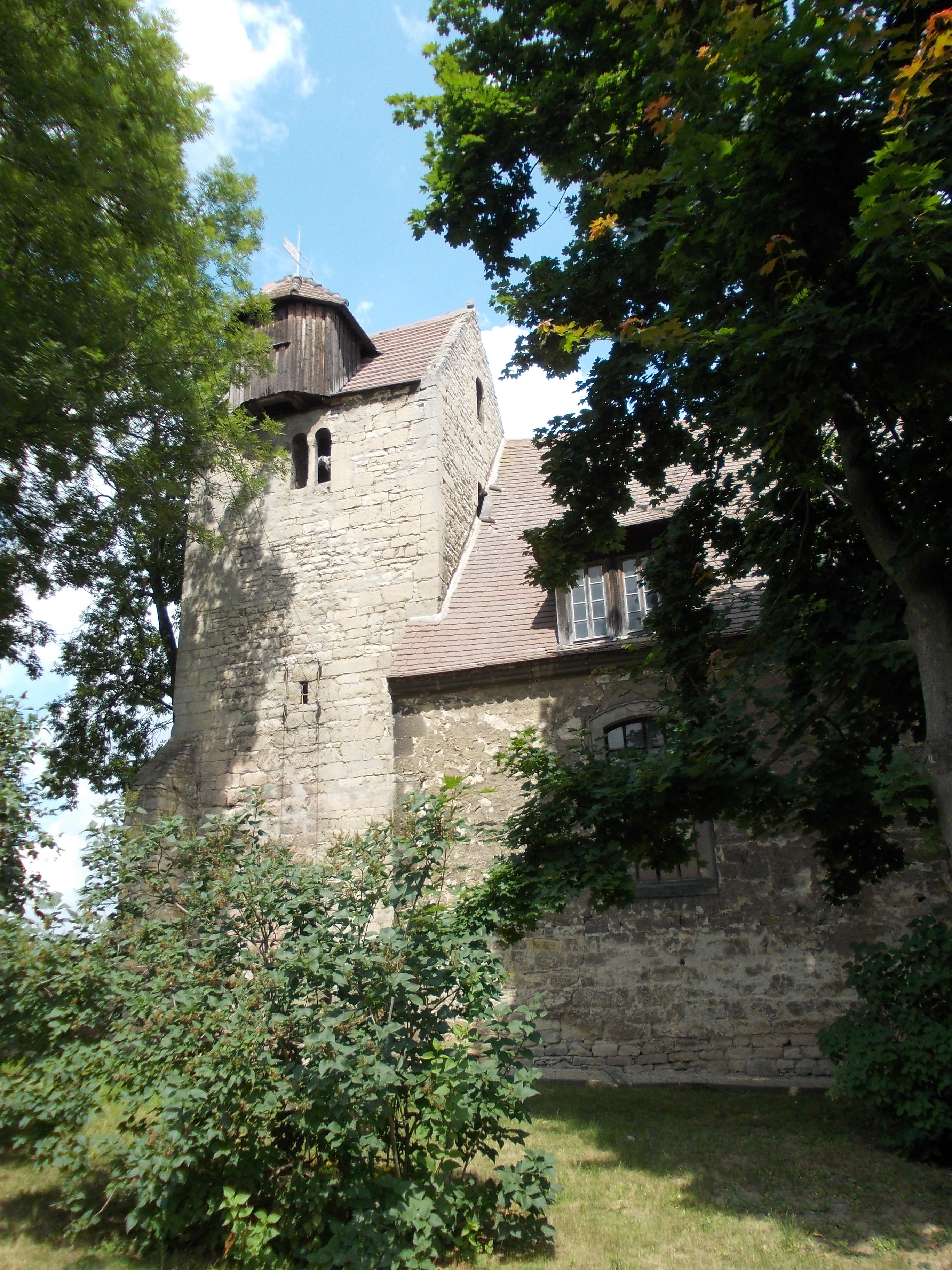 Schleberoda church (Freyburg/Unstrut, district: Burgenlandkreis, Saxony-anhalt)